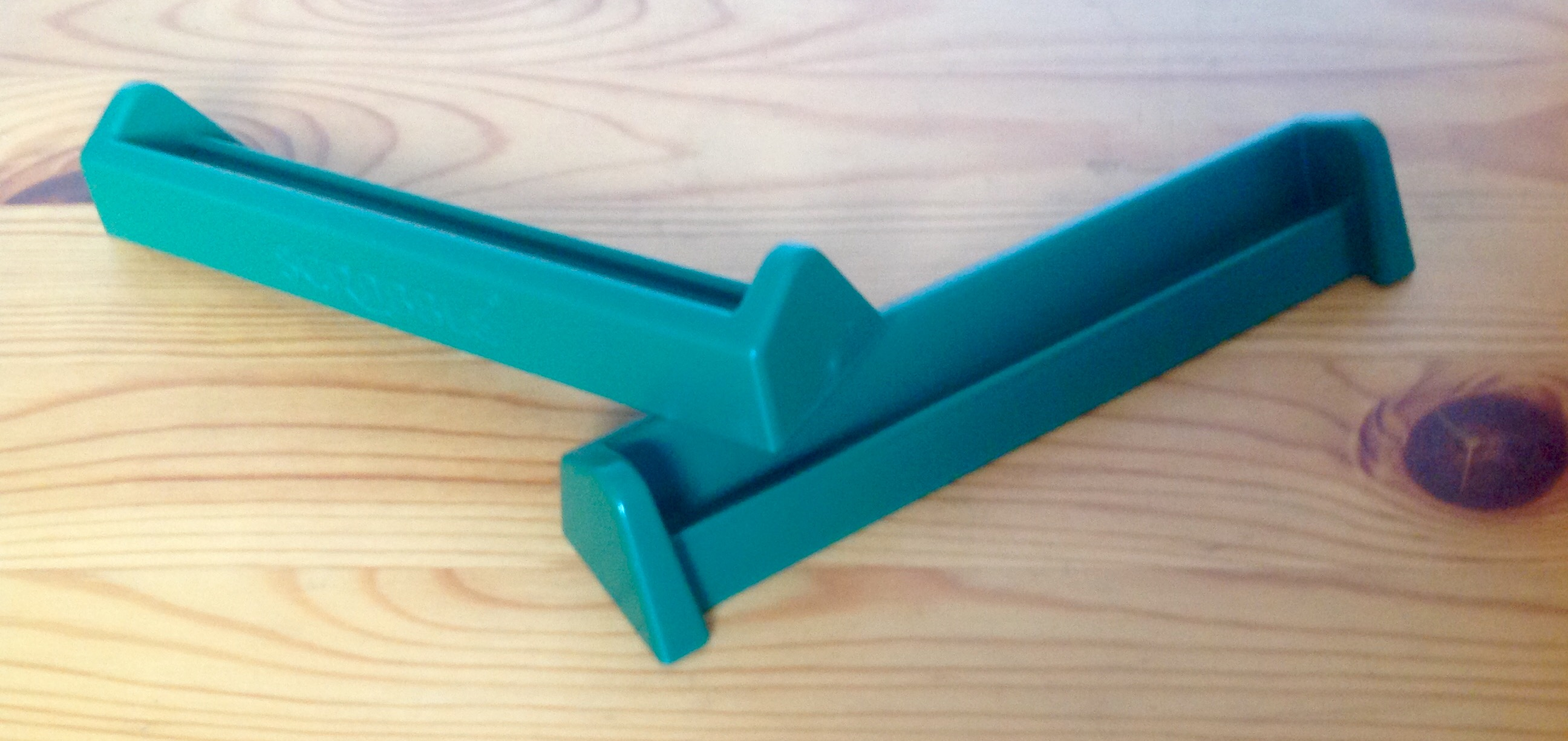 lectern, scrabble, game